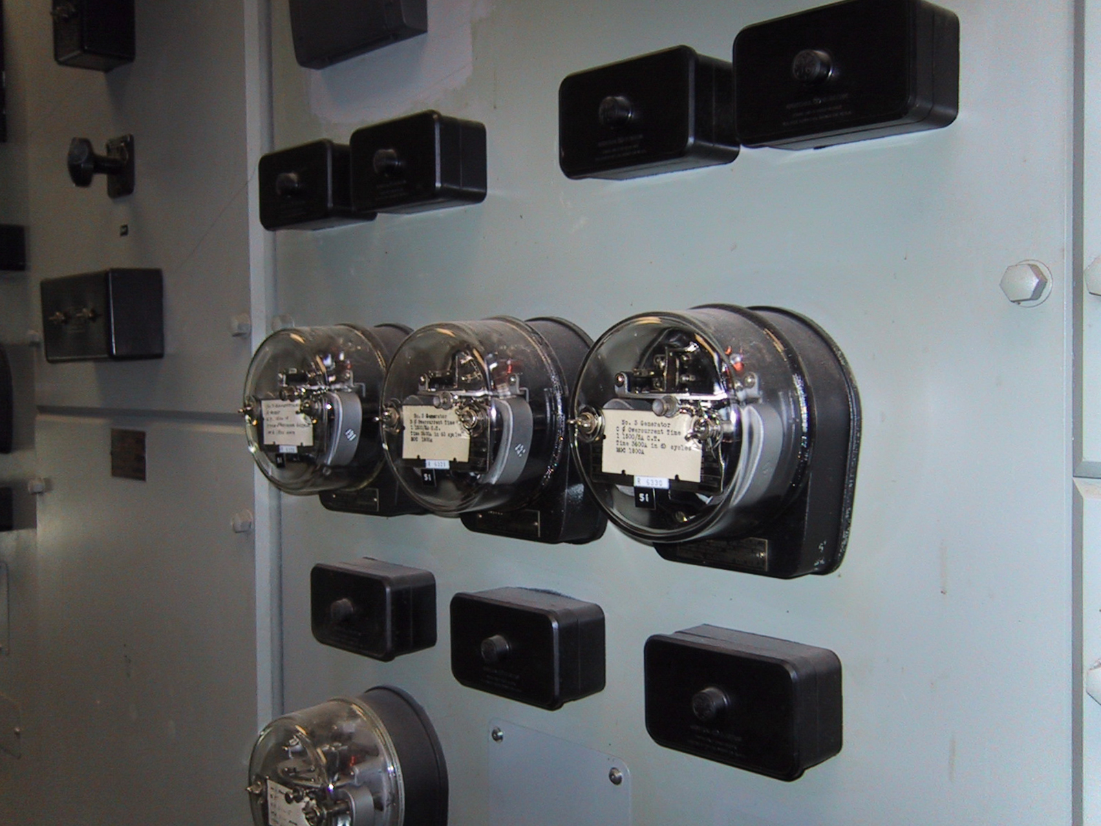 Electromechanical Protective relays in surface-mounted round glass cases at Manitoba Hydro Pointe du Bois Generating Station, taken February 19, 2002. These are generator over-current protection relays. Also visible are rectangular test blocks for isolating the relays for testing.